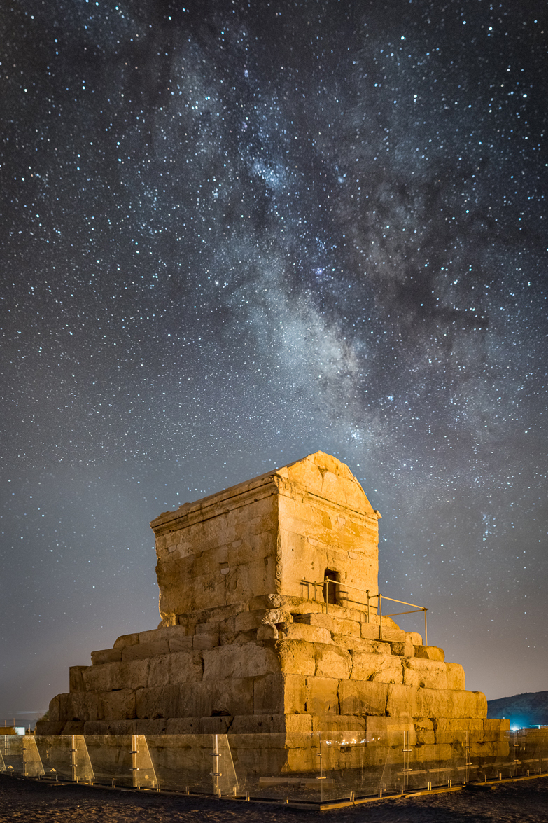 Tomb of Cyrus the great from Achaemenid Empire located in Pasargadae, a UNESCO World Heritage Site in Fars Province, Iran.